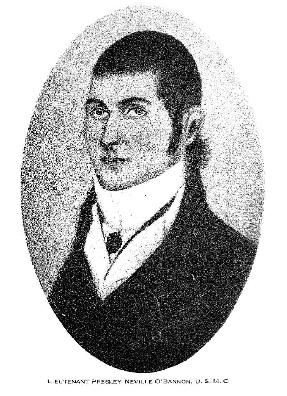 Presley O'Bannon was a first lieutenant in the United States Marine Corps, famous for his exploits in the First Barbary War (1801-1805).